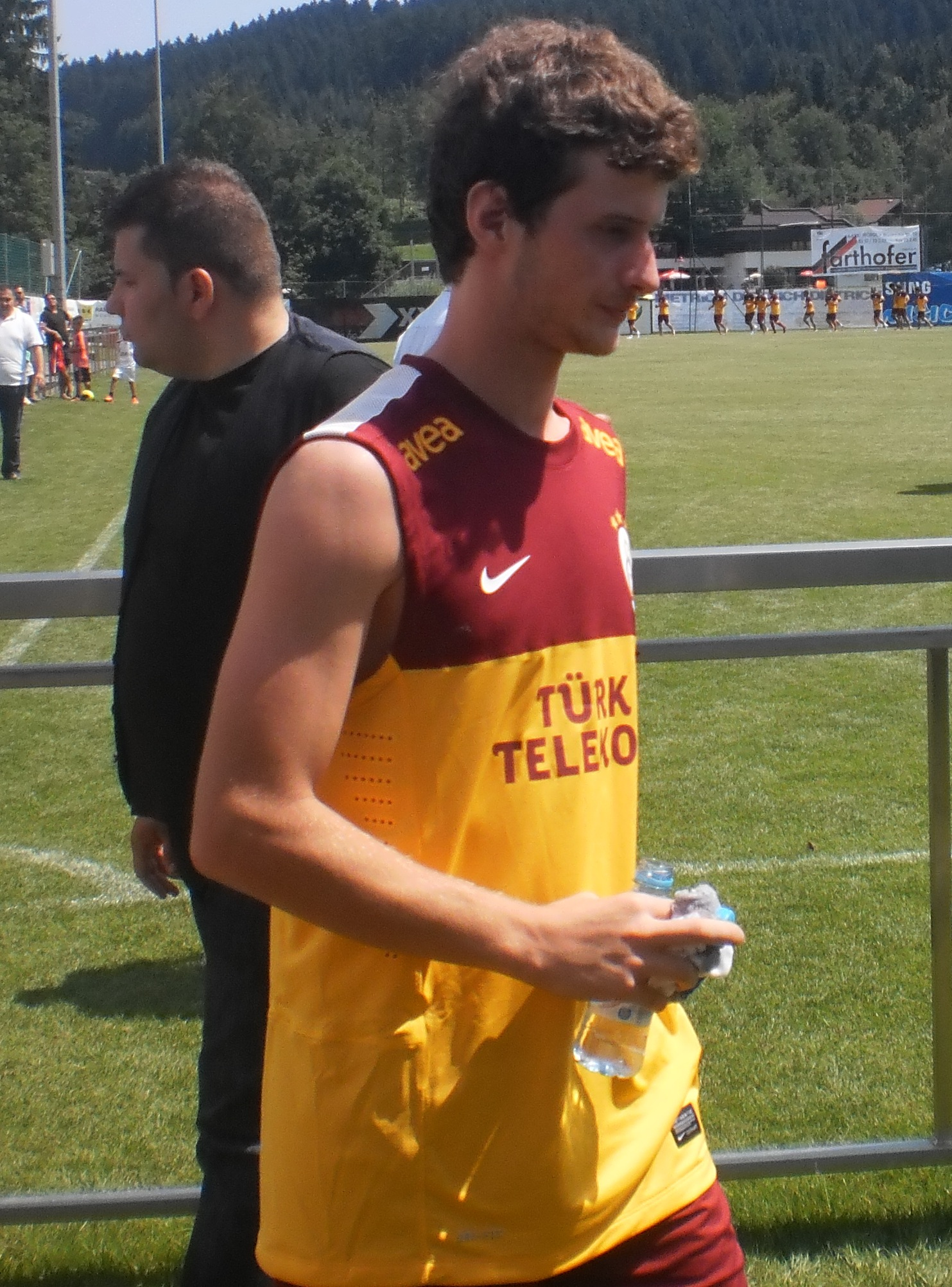 Berk @ GS Camp